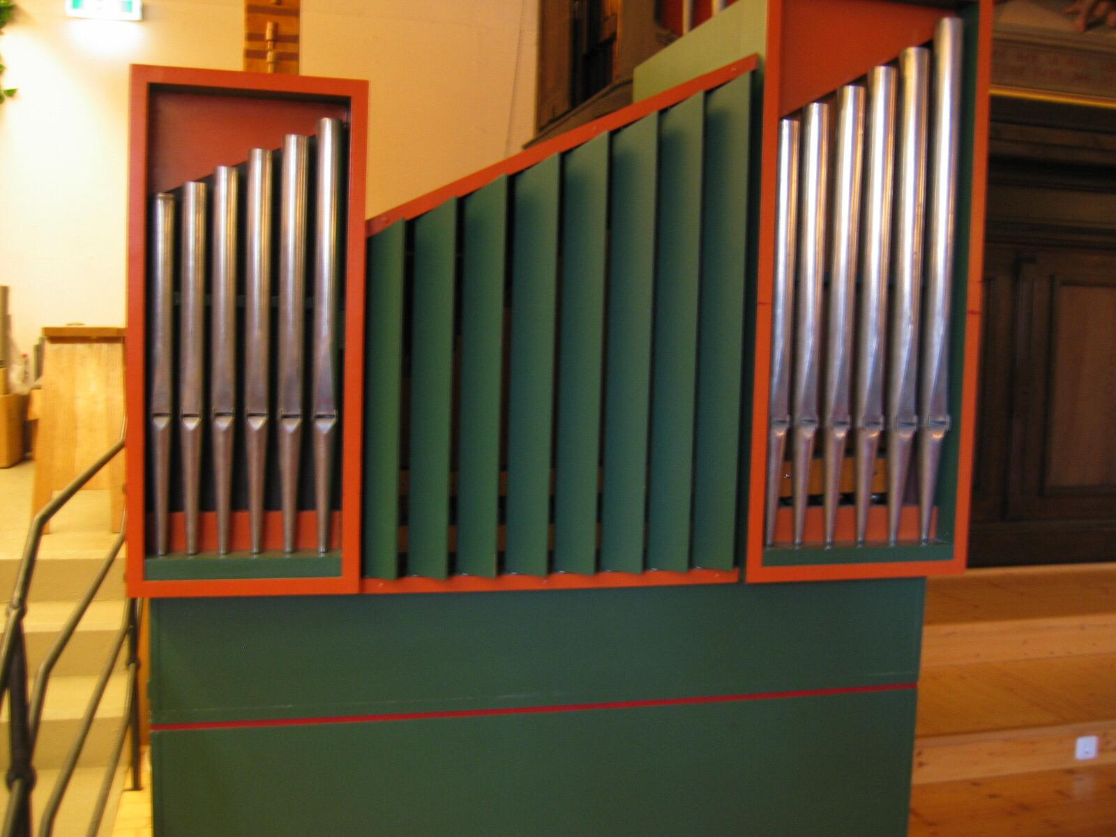 Orgelzentrum Valley